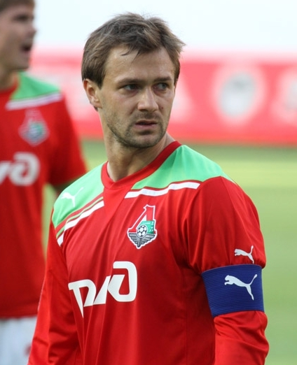 Dmitry Sychev in action for FC Lokomotiv Moscow